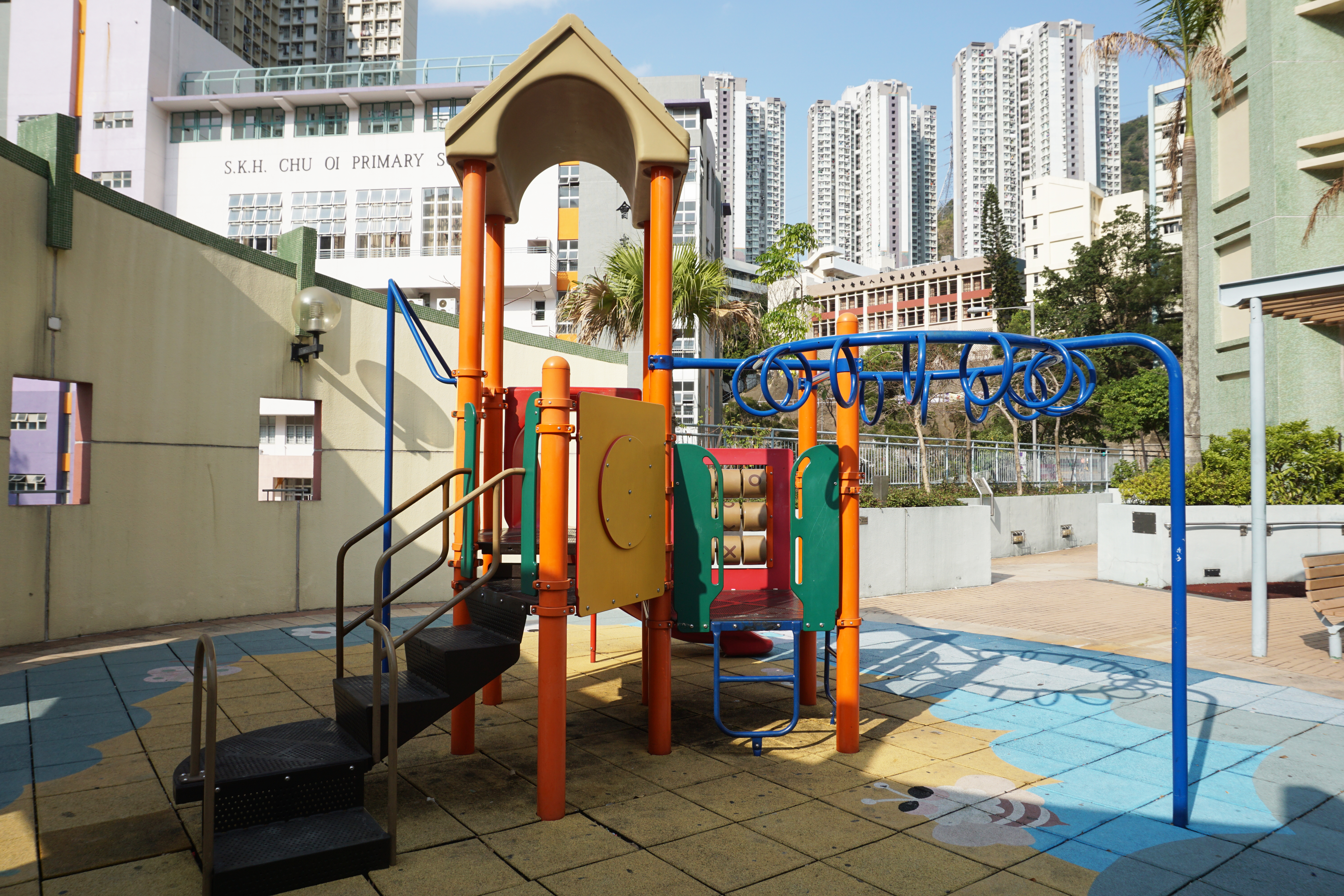 Shek Yam Estate in Shek Yam, Hong Kong.